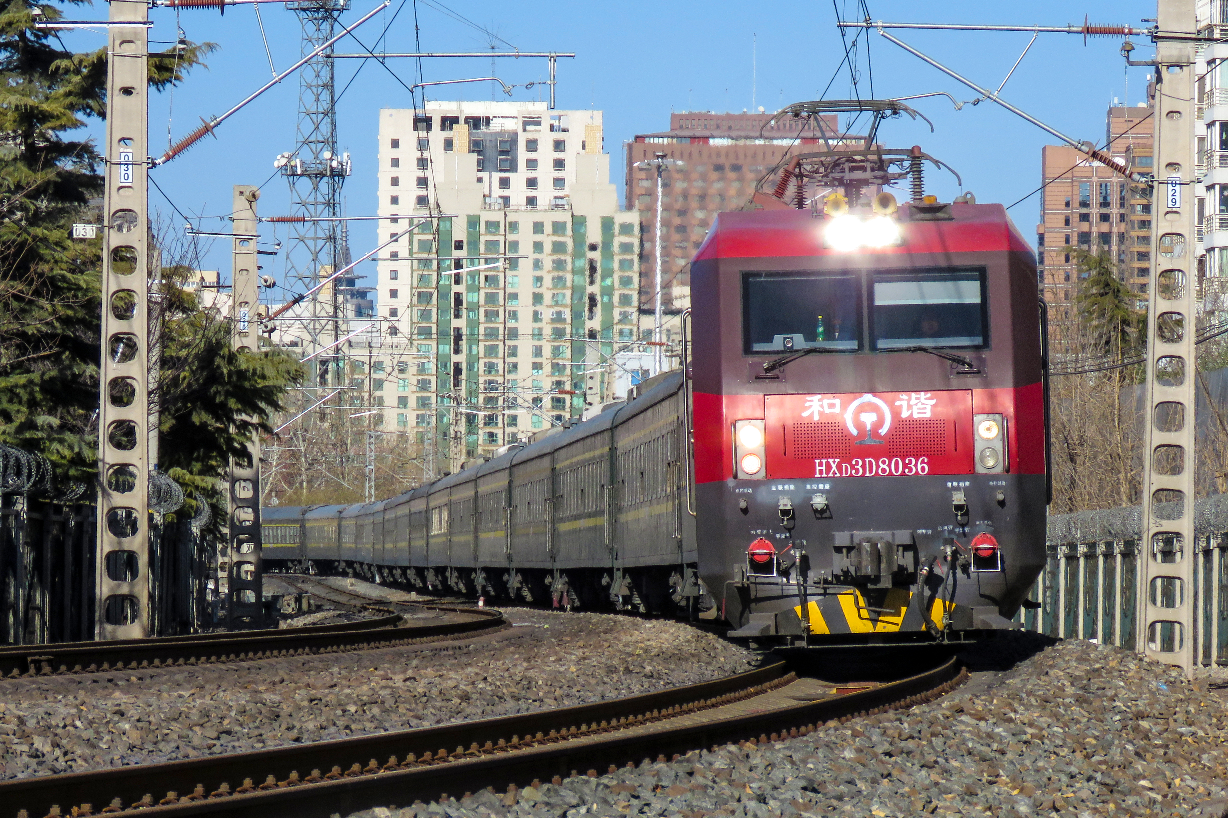 K215 to Tumen. First time to formally spot a Datong-built HXD3D?